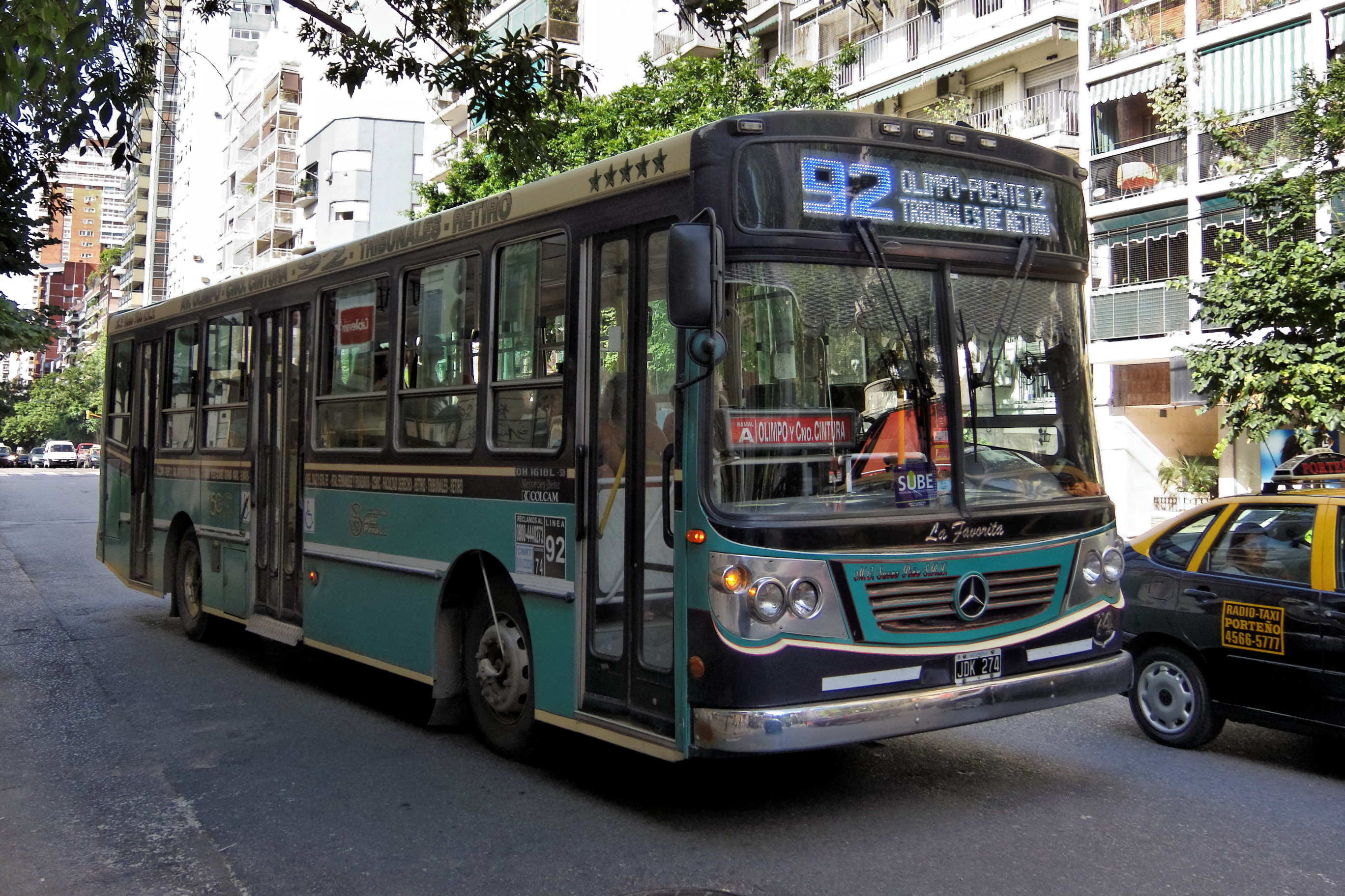 La Favorita bus (reg. JDK 274, #74) with Mercedez-Benz OH 1618 L-SB chassis in Buenos Aires, Argentina. Colectivo, line 92, Empresa Microomnibus Sáenz Peña S.R.L. operator.